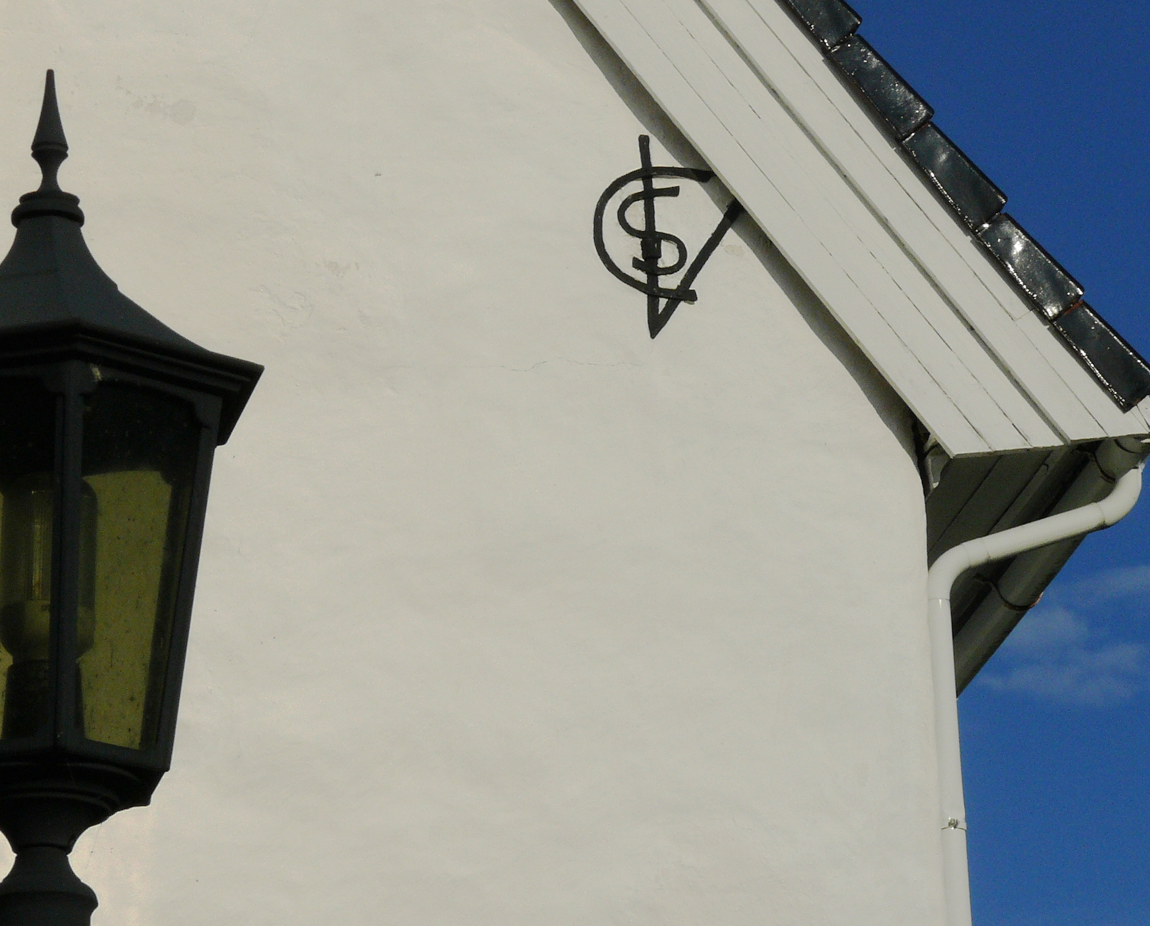 Vereide church - CSV-signature on entrance wall.jpg